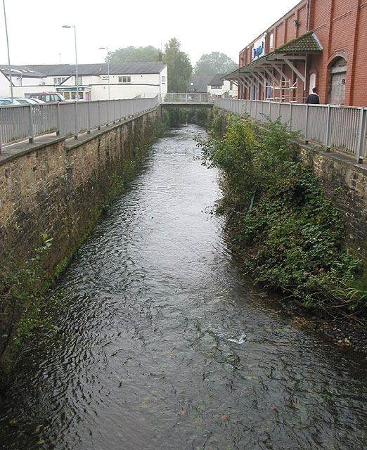 River Lyd through Lydney Making its way down to join the Severn through Lydney Harbour.